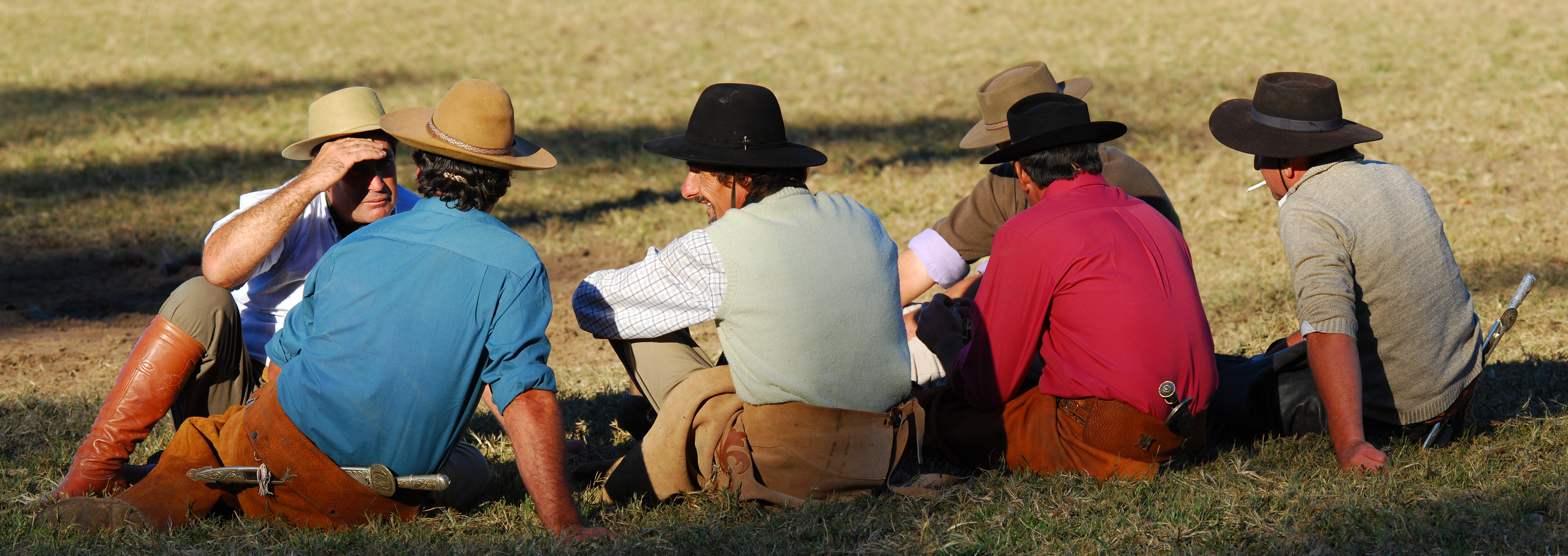 In some gaucho rodeo. Some gauchos share stories. You can see the typical machetes.